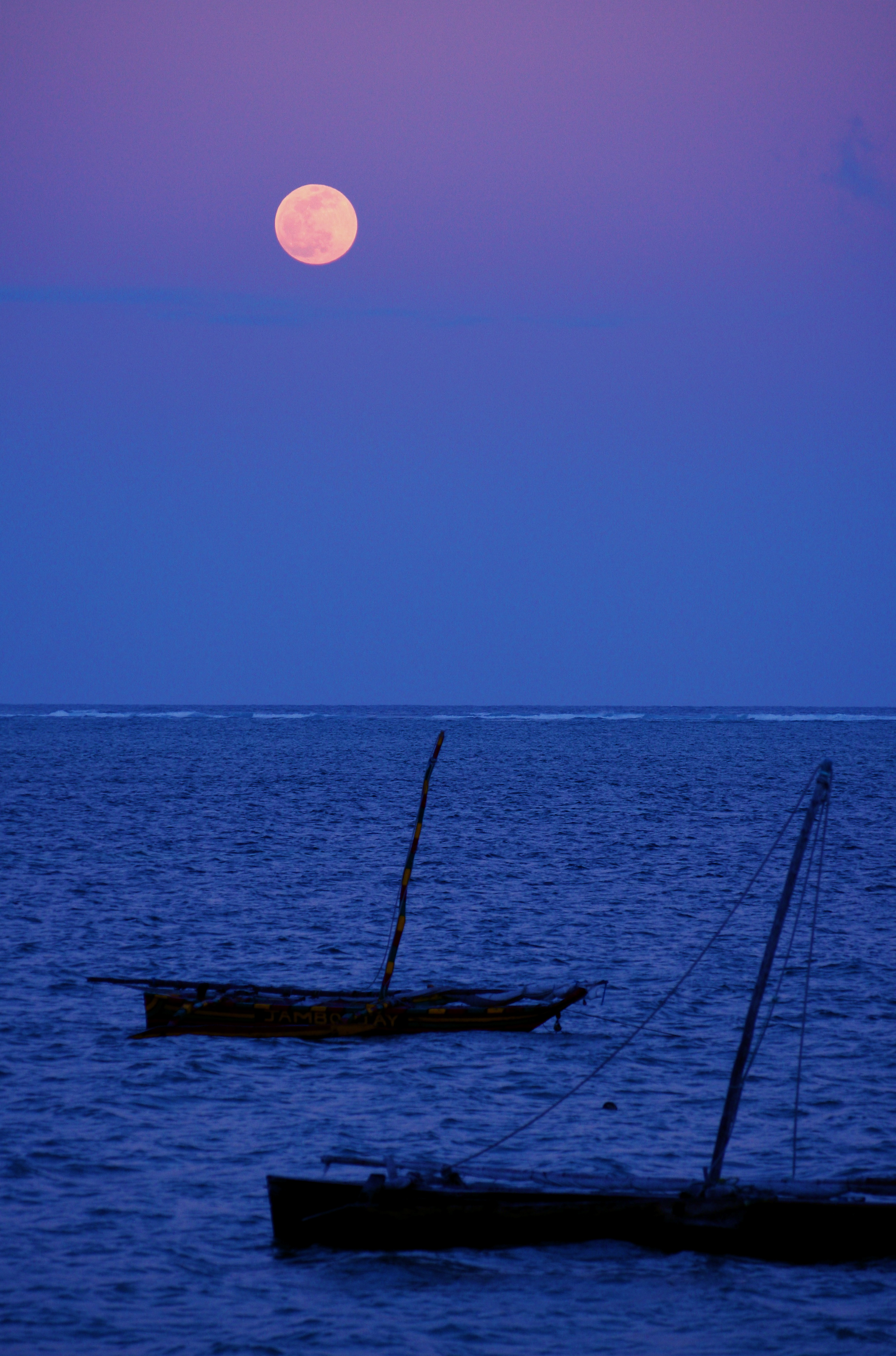 Moonlight view from Mombasa, KenyaMoon Over Mombasa